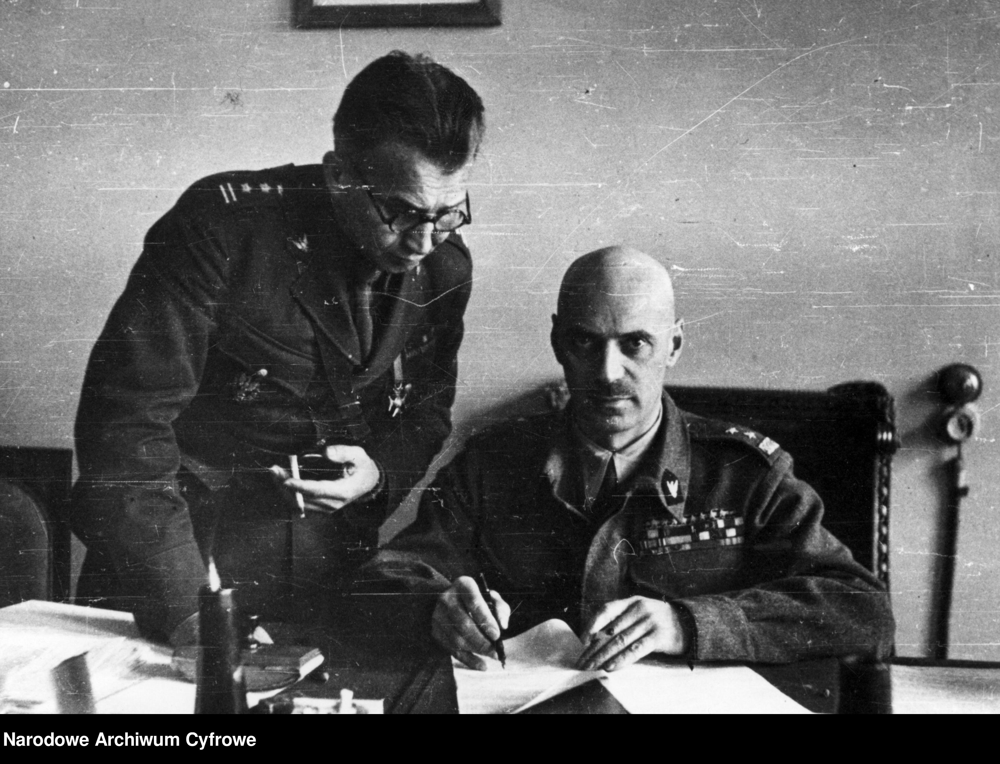 General Władysław Anders - commander of the Polish Army in the USSR and colonel Leopold Okulicki, in the office of General Anders. Between 1941-1942. Polish Narodowe Archiwum Cyfrowe.